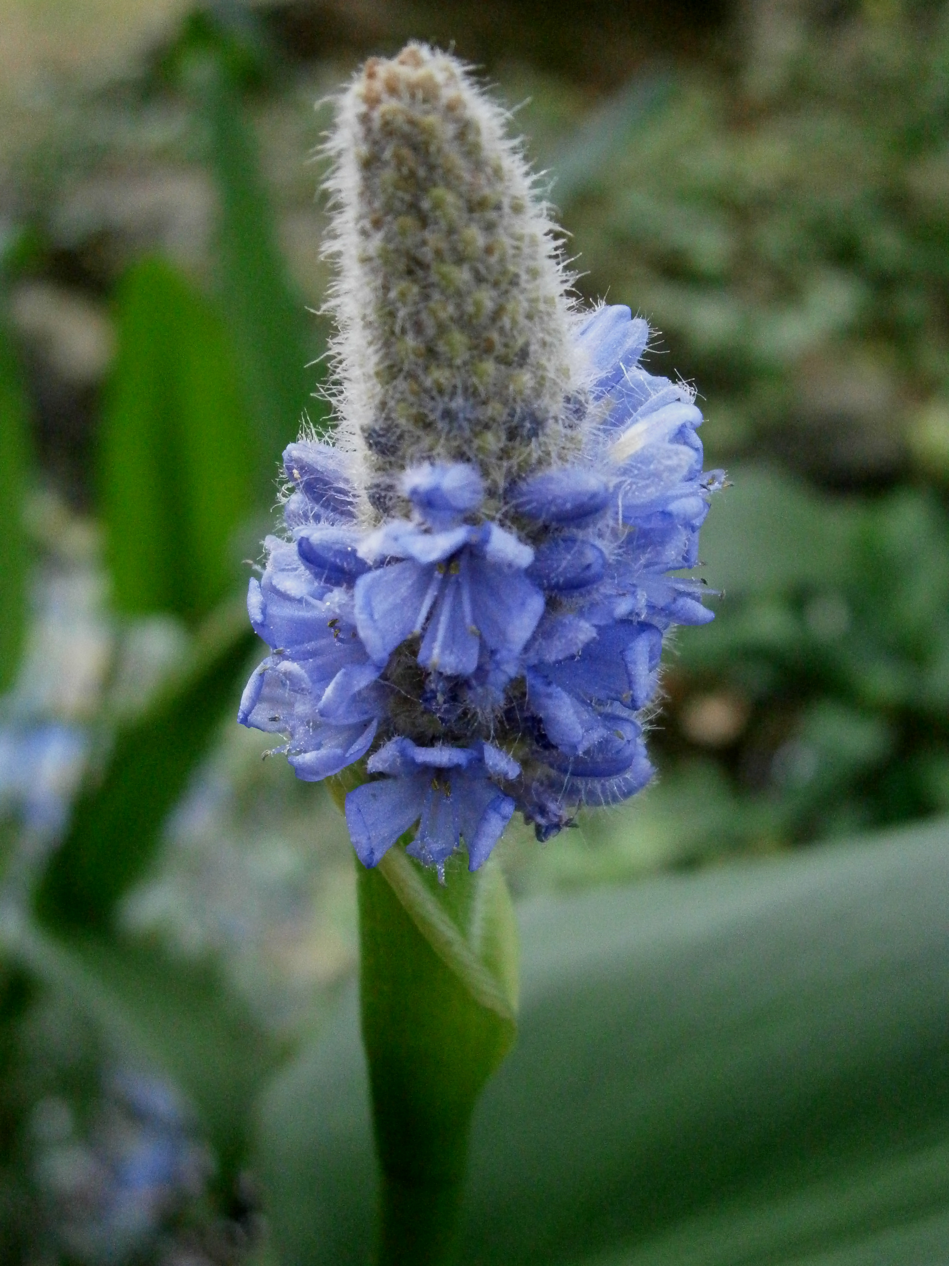 Pontederia sagittata opening inflorescence